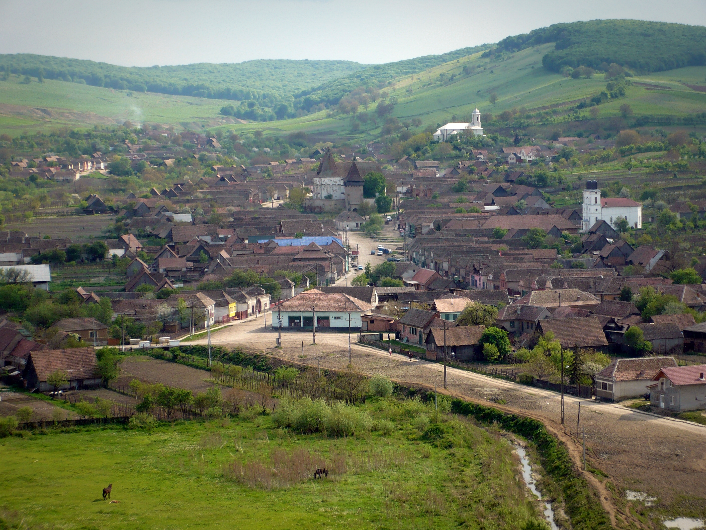 Boian, Jud. Sibiu